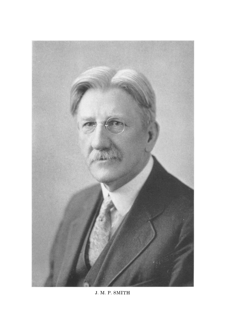 J. M. P. Smith